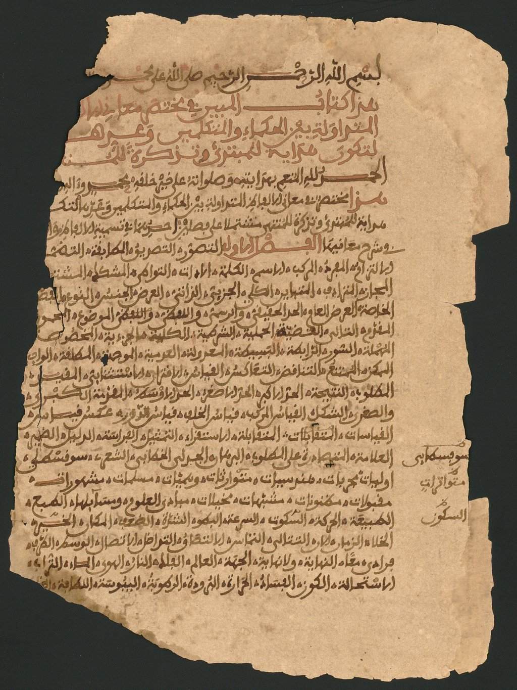 Timbuktu, founded around 1100 as a commercial center for trade across the Sahara Desert, was also an important seat of Islamic learning from the 14th century onward. The libraries of Timbuktu contain many important manuscripts, in different styles of Arabic scripts, which were written and copied by Timbuktu’s scribes and scholars. These works constitute the city’s most famous and long-lasting contribution to Islamic and world civilization. In this work, the author examines theologians' and scholars' approaches to various issues in Islamic law and society and offers an explanation of the pronouncements of these learned individuals. Arabic calligraphy; Arabic manuscripts; Islamic law; Islamic manuscripts; Social matters; Timbuktu manuscripts